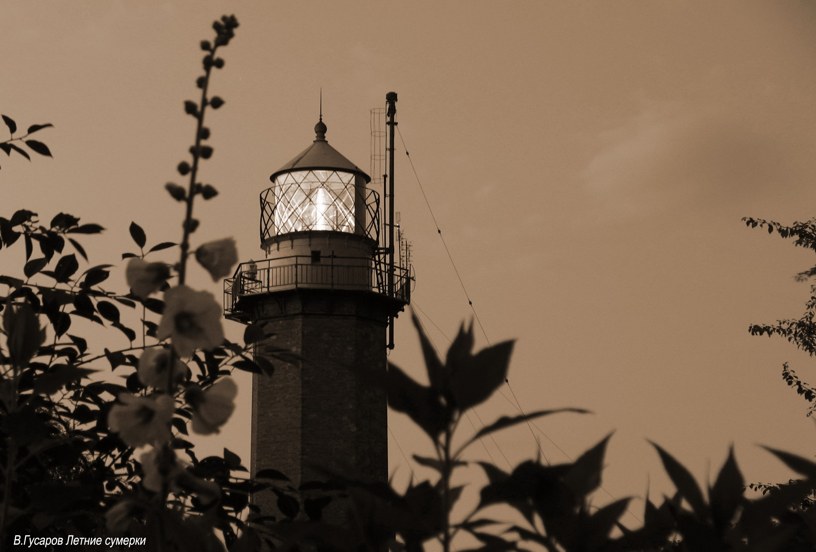 Taran lighthouse in summer twilight. Best photos of Russian lighthouses photo-competition